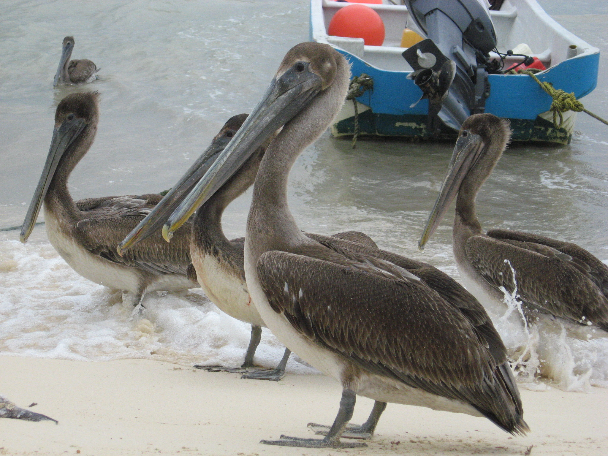 Brown pelicans at Playa del Carmen, Mexico